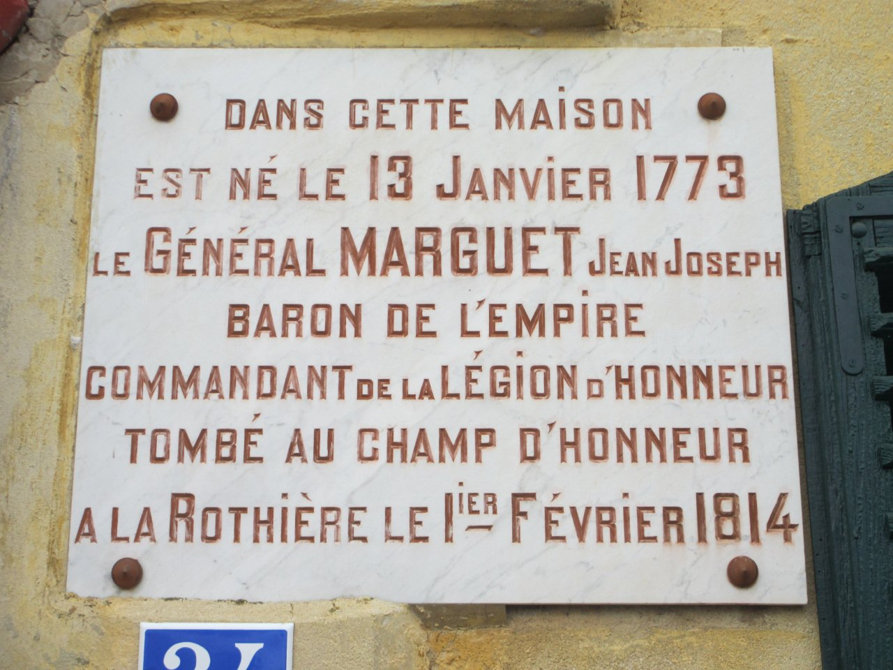 Plaque commémorative posé à l'occasion des 200 ans de la mort du baron Marguet le 1 février 2014